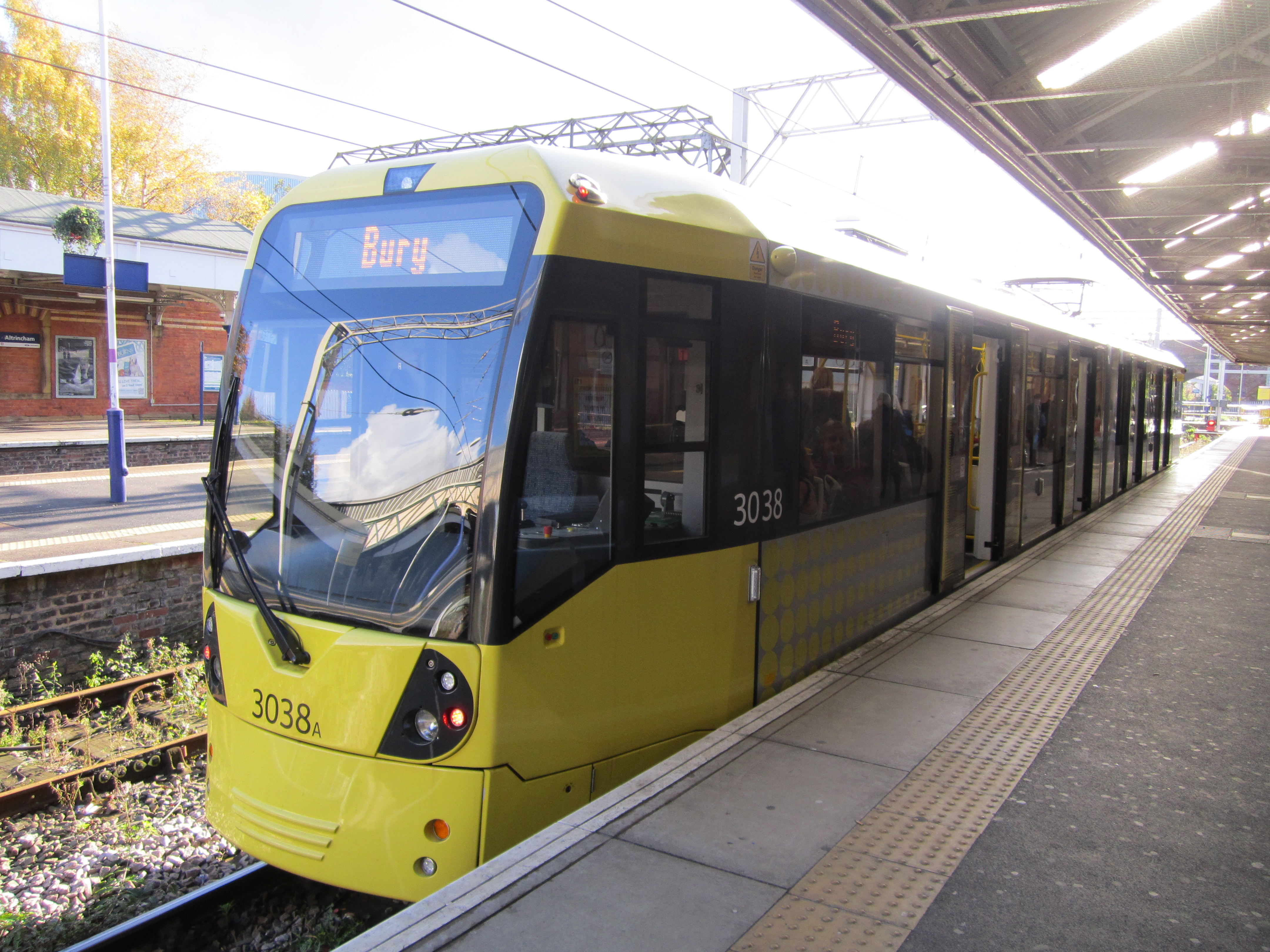 Photo taken at Altrincham Interchange, Greater Manchester, England.